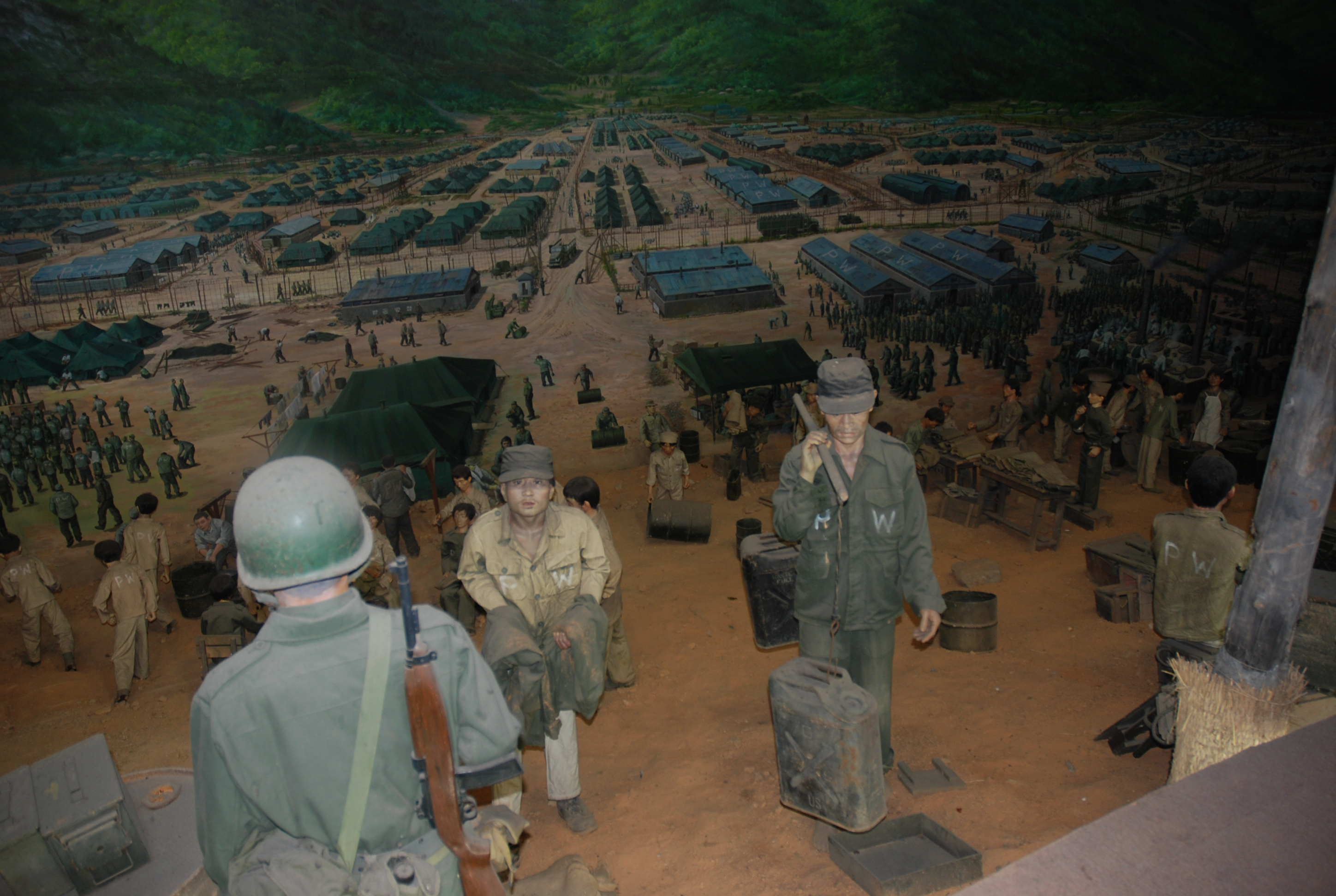 Geoje POW Camp miniature